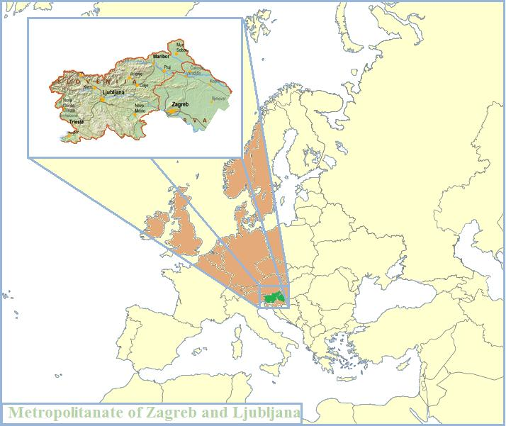 Metropolitanate of Zagreb and Ljubljana